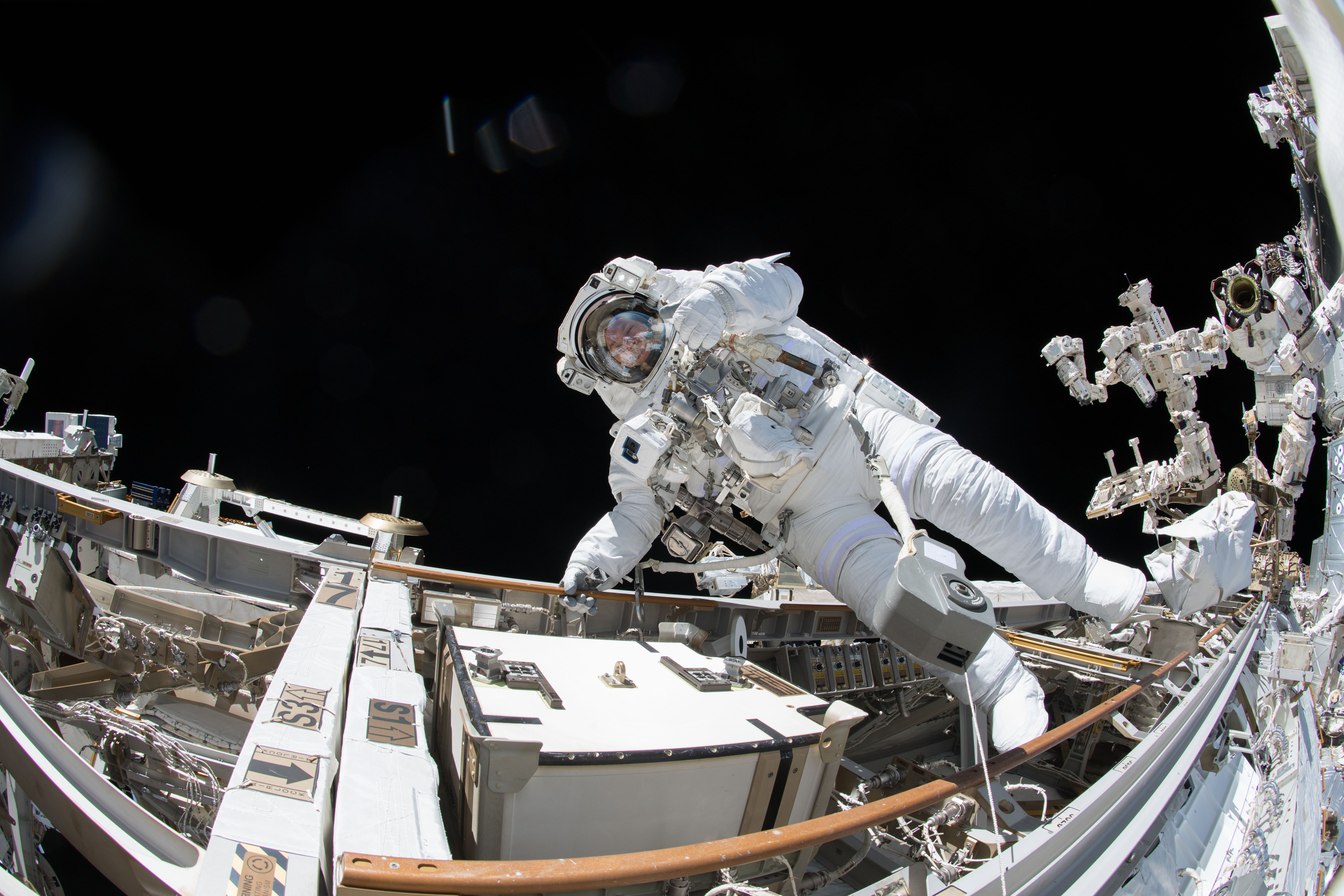 NASA astronaut Drew Feustel is pictured during a spacewalk he conducted with fellow NASA astronaut Ricky Arnold (out of frame) on June 14, 2018. During the six-hour, 49-minute spacewalk the duo installed high-definition cameras to provide enhanced views of commercial crew spacecraft, including the SpaceX Crew Dragon and the Boeing Starliner, as they approach and dock with the International Space Station.